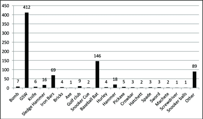 This chart contains data collected by orthopedic services of the Northern Ireland NHS regarding the weapons used against paramilitary punishment victims that required orthopedic treatment